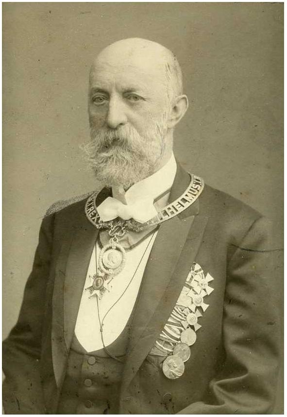 Jakob Friedrich (Fritz) Kalle (1837-1915) with the Wilhelm-Order of Prussia